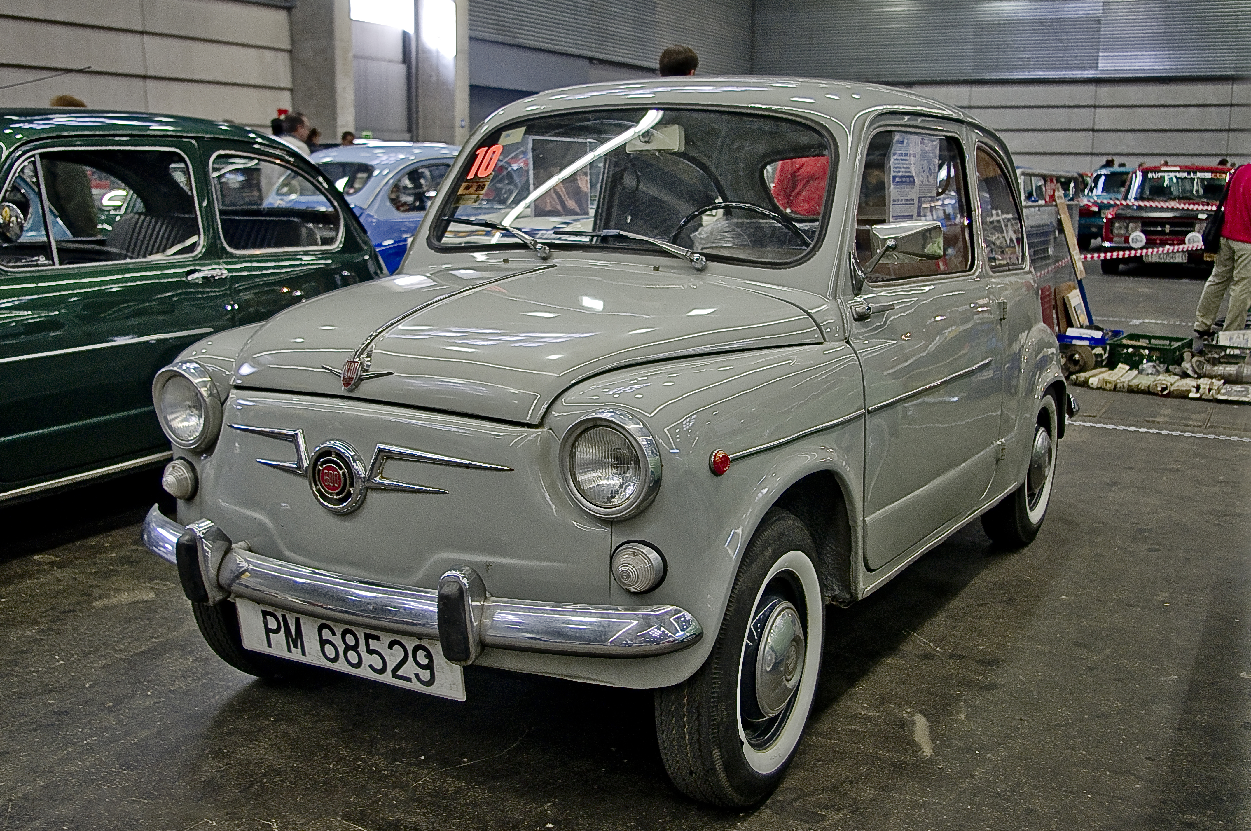 1964 Seat 600 D